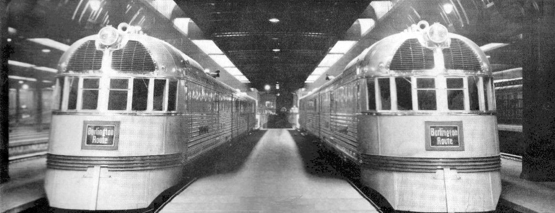 Photo of Twin Cities Zephyrs at station. This was taken shortly before the trains went into service.